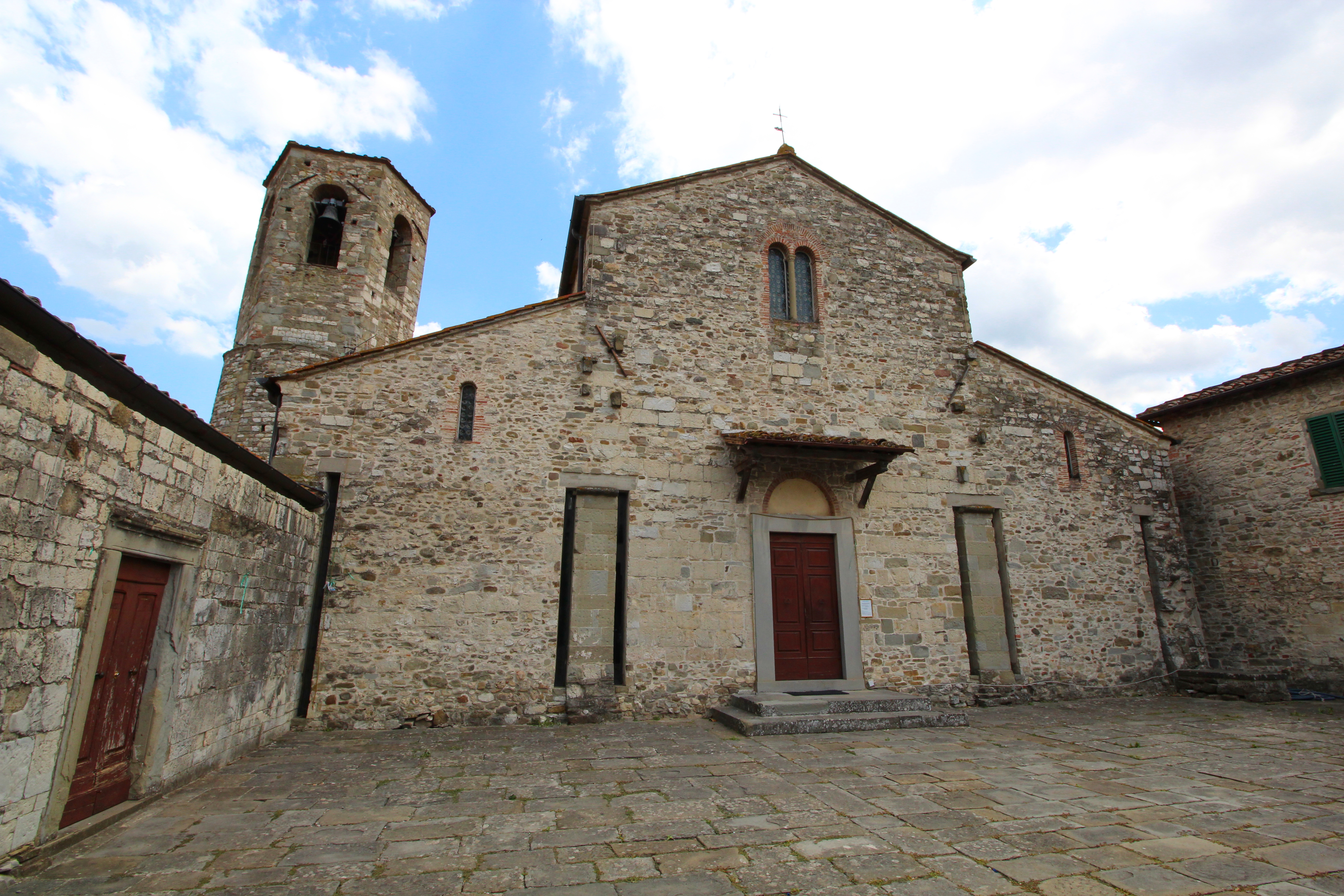 Church Sant'Antonino a Socana, Pieve a Socana, hamlet of Castel Focognano, Province of Arezzo, Tuscany, Italy